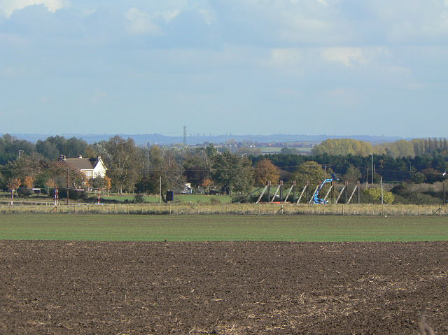 View towards Margidunum Margidunum was a Roman civilian settlement on the Fosse Way in the 2nd/3rd centuries AD.